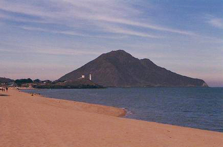 San Felipe, Baja California. Taken in December 2000. The rock and lighthouse pictured are on the northeast edge of town.